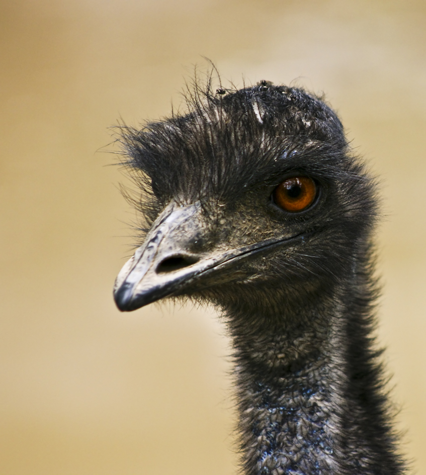 A photo of an Emu who looks like he is having a bad hair/ feather day. They always look like they have a grin on their face but I wouldnt trust them